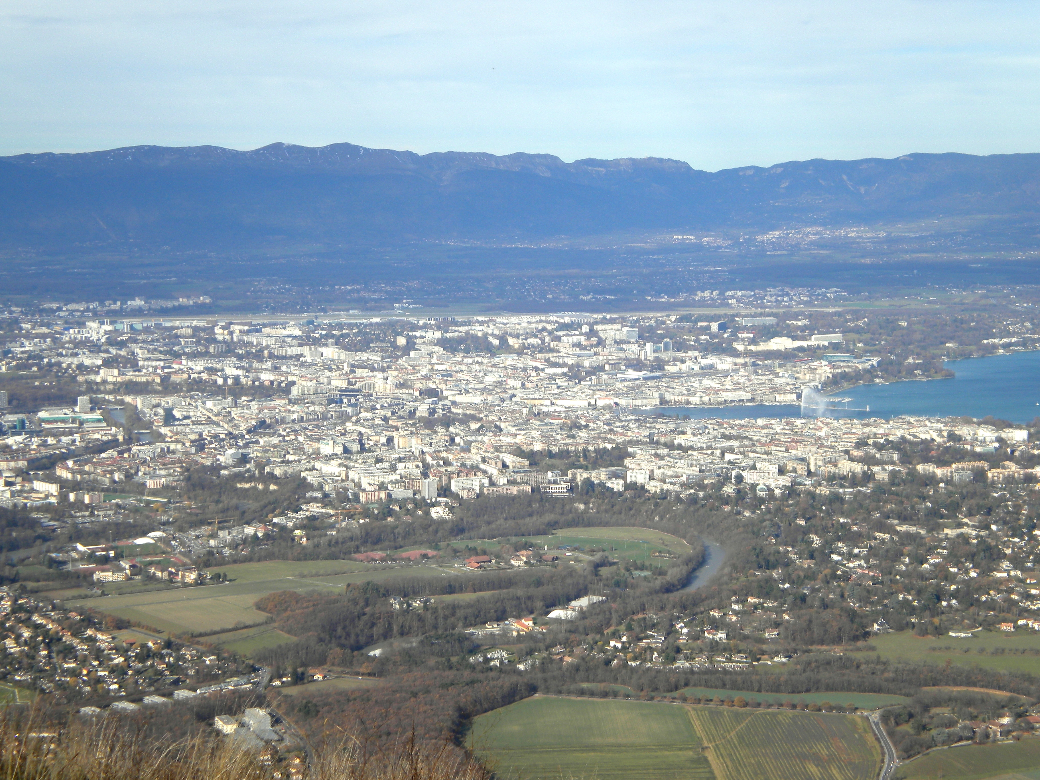 View of Geneva from the Salève (near the cable-car station). In the background a French part of the Jura.